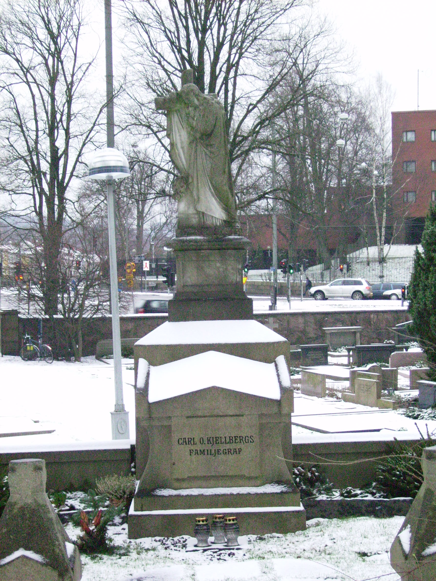 Picture of Carl O. Kjellbergs grave in Gothenburg.